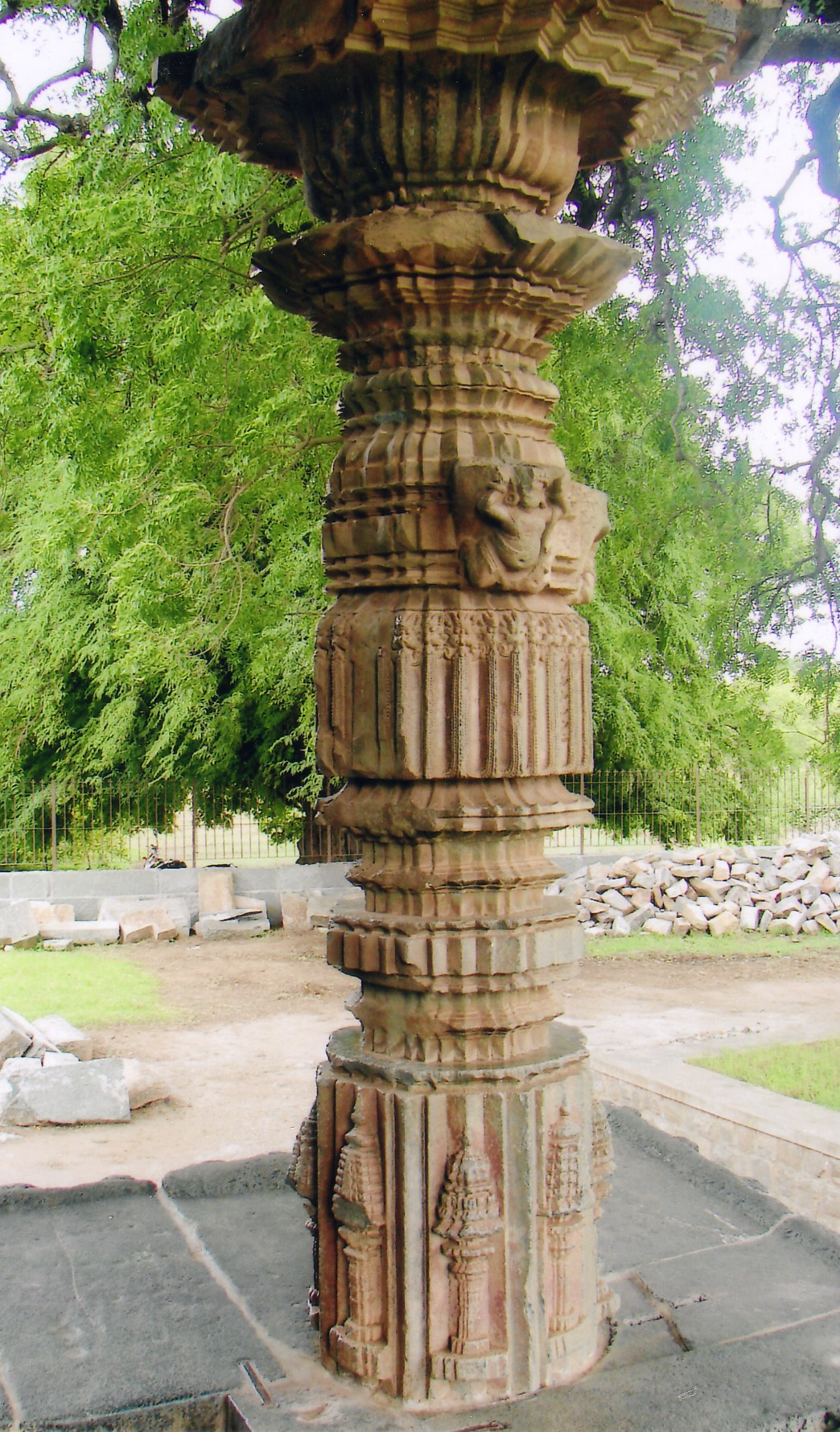 This image was taken by me (Dinesh Kannambadi) at the Dodda Basappa Temple in Dambal, Gadag district, Karnataka state, India